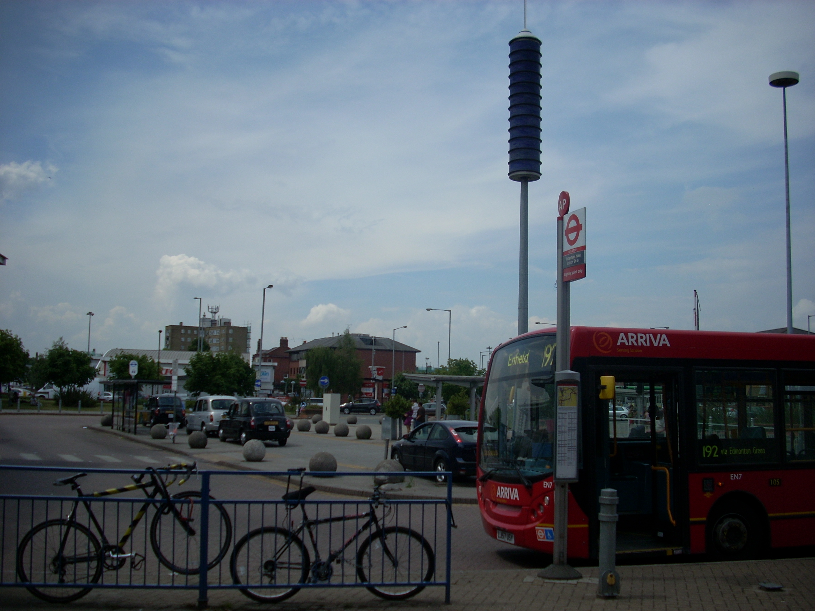 Tottenham Hale Bus Stm - June 2009